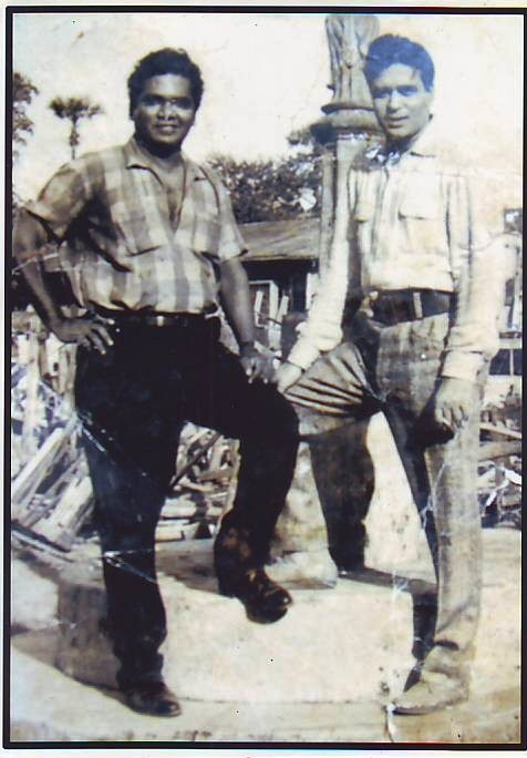 Got from my father, Anwar khan who gt this from m. h. douglas